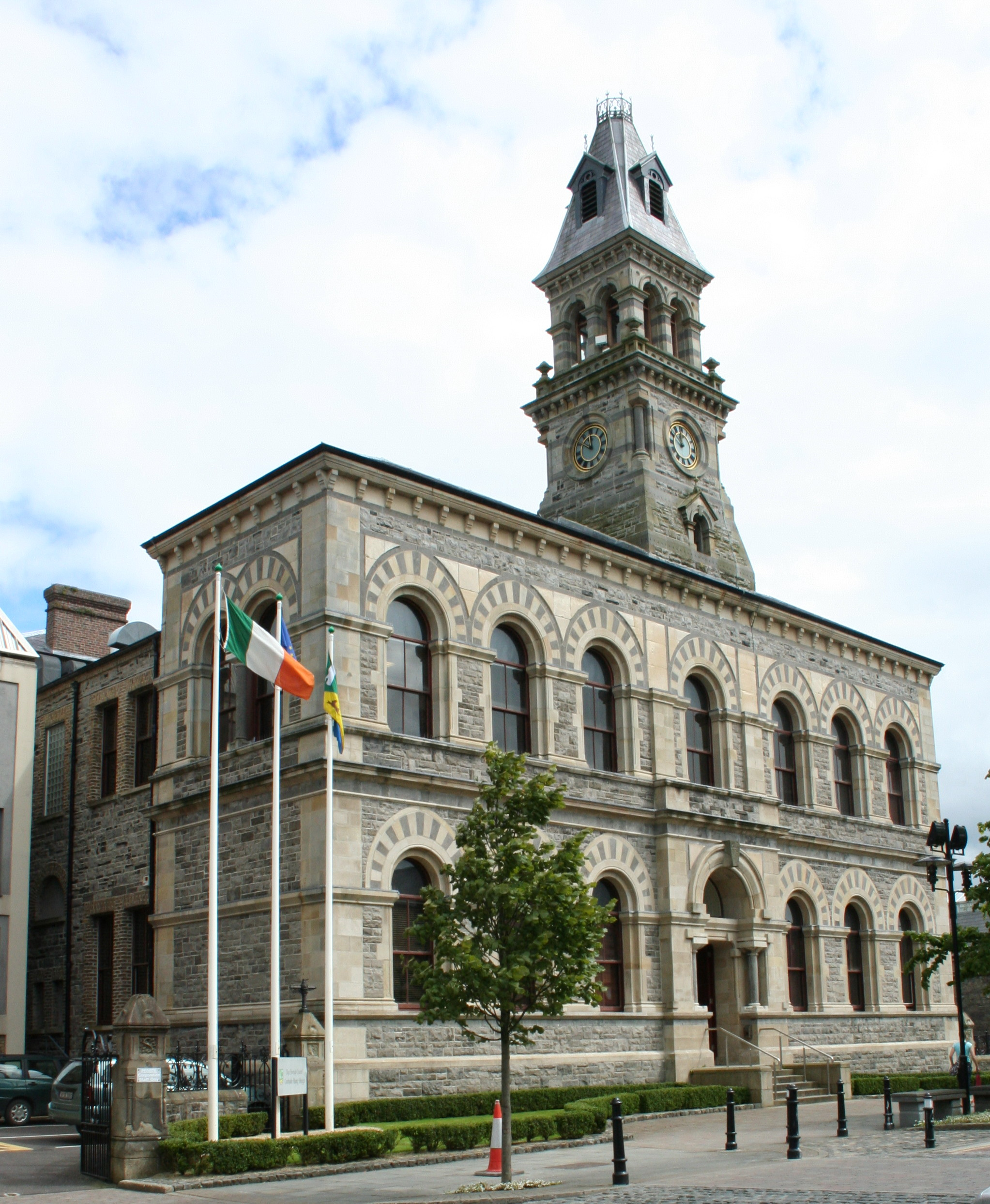 Sligo Borough Council Credit: A Peter Clarke image